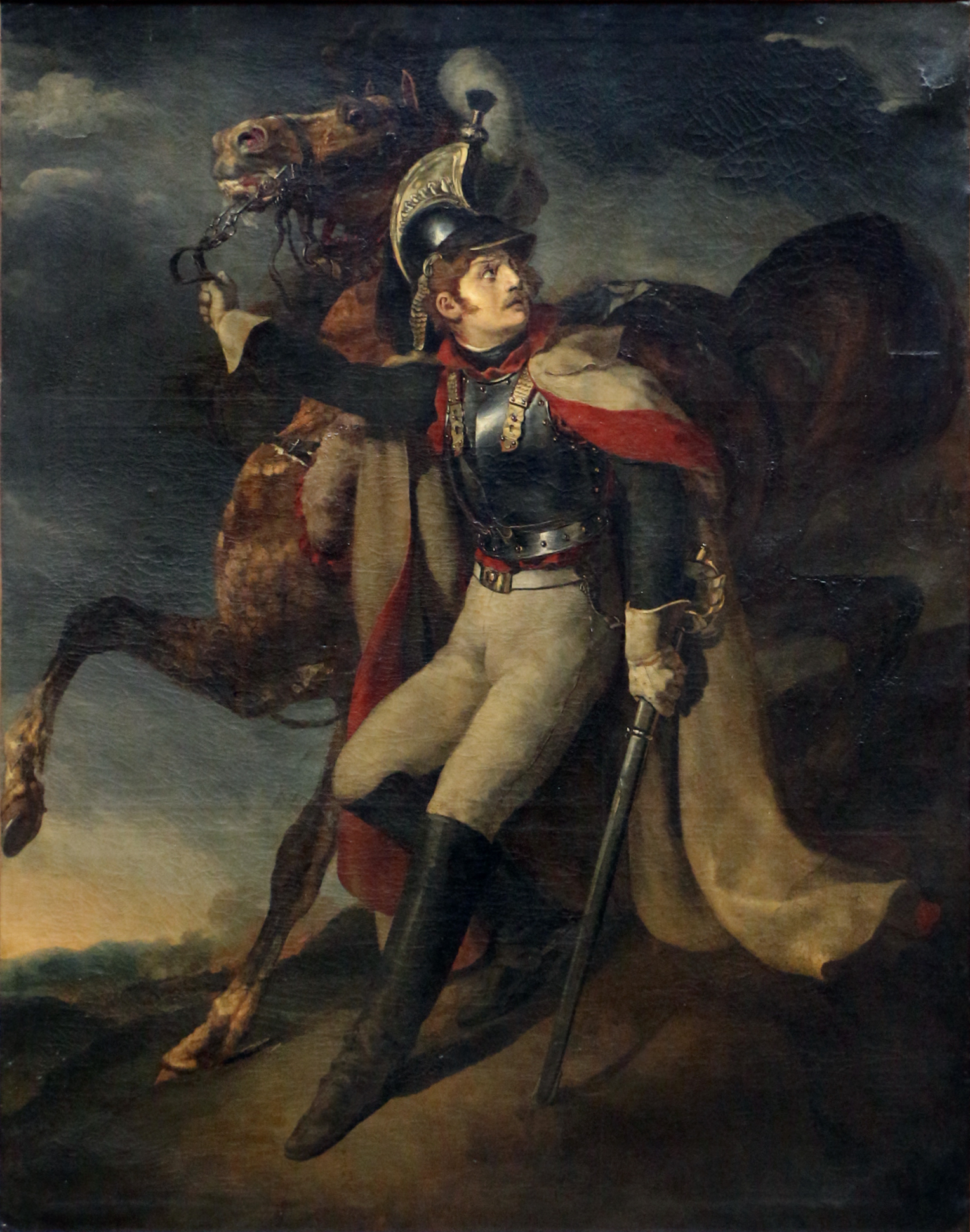 French paintings in the Louvre